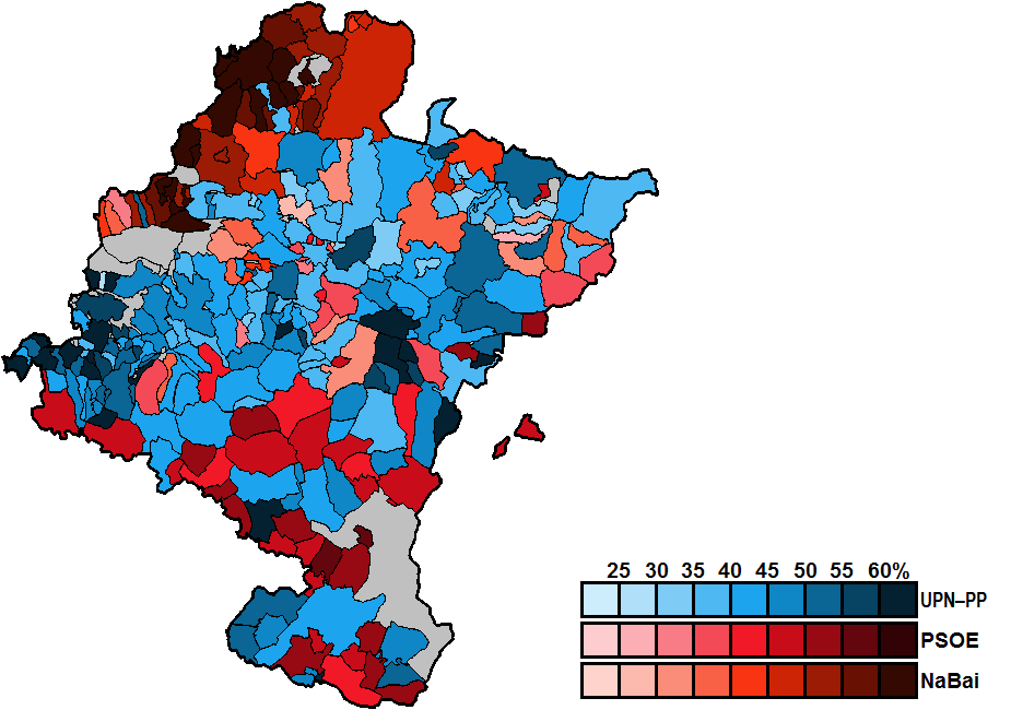 Most-voted party in Navarre municipalities, showing vote share obtained, in the Spanish general election, 2004.